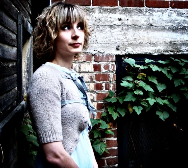 Heather Anne Campbell